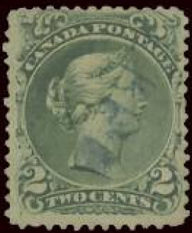 Canada 2c Large Queen on laid paper Registered cancel.